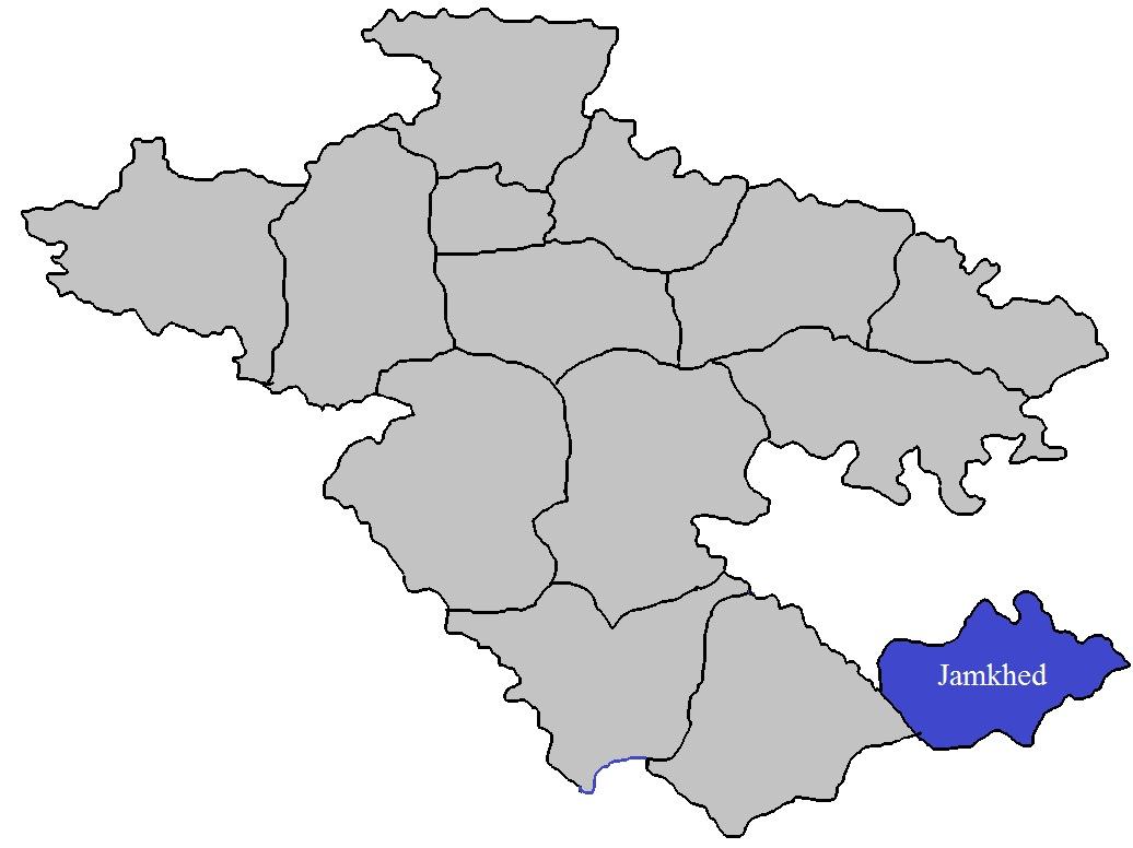 Jamkhed Tehsil in Ahmednagar District